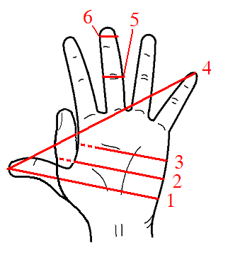 Hand derived units of measurement. Shaftment (palm and extended thumb) about 2 palms or 6 inches Hand (In English, a “Hand” or “Handbreadth” is commonly used to represent the width of the palm, sometimes including the thumb when closed against the palm.) about 4 inches Palm (In English, a "Palm" is commonly used to represent four fingers held together, which is slightly less than the true width of the palm at the knuckles.) about 3 inches or 4 fingers Span (from little finger tip to thumb tip) about 3 palms, 9 inches or 12 fingers Finger (or fingerbreadth) about 3/4 inch or 1/16 foot Digit (In English, “digit” and “finger” are used to represent the width of a finger. However, the value of the digit is slightly less than the value of the finger.) Thumb (not indicated) about 1 inch or 1/12 foot